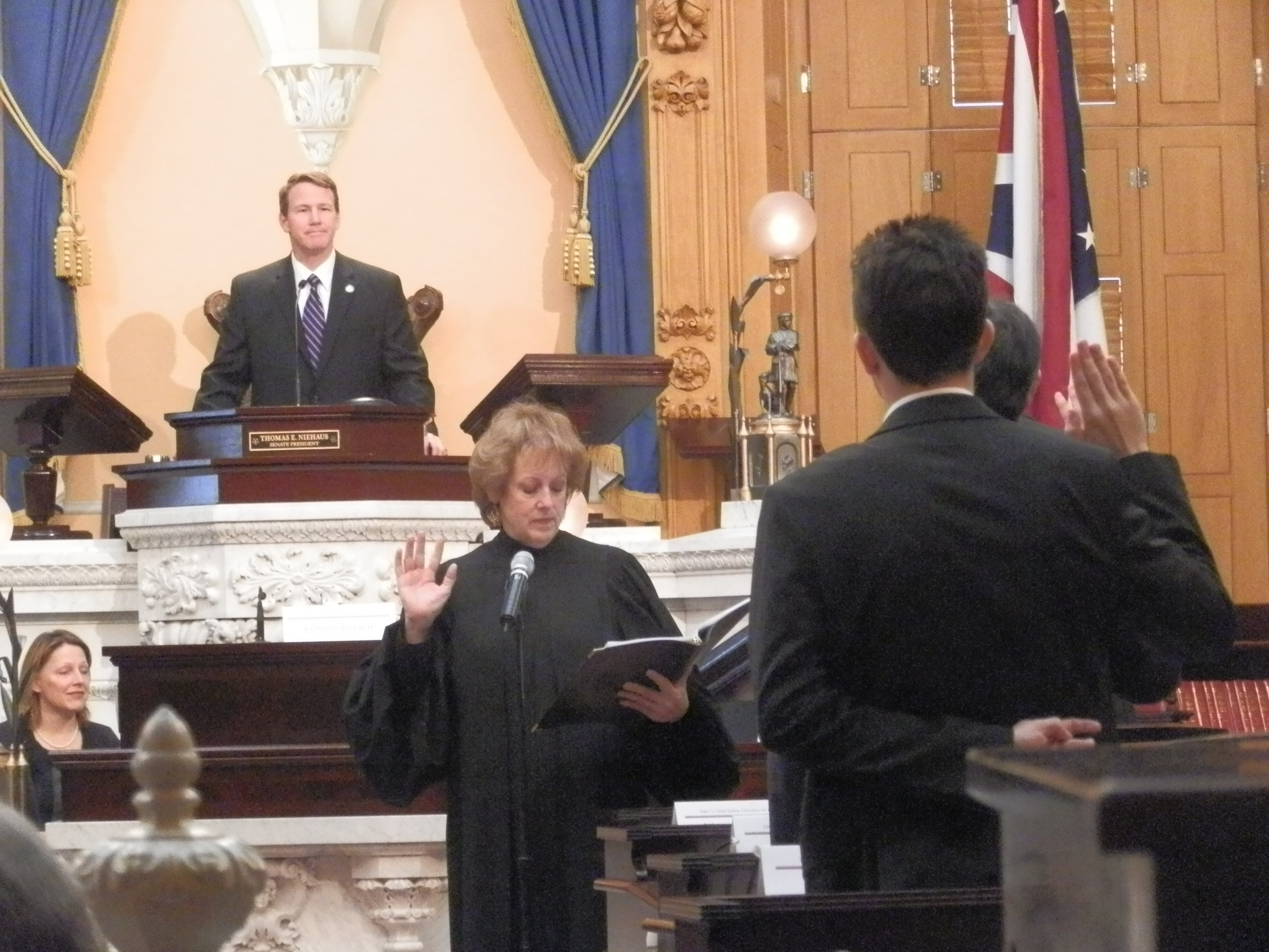 Meeting of the Ohio Electoral College